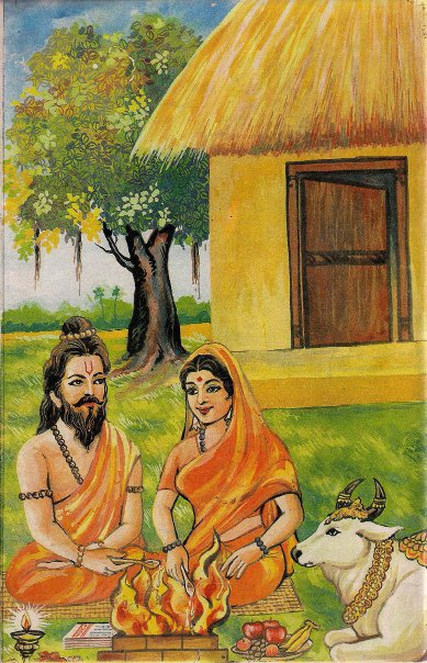 Vasistha, Arundhati and Kamadhenu - Art on the back cover of Arundhati (1994)